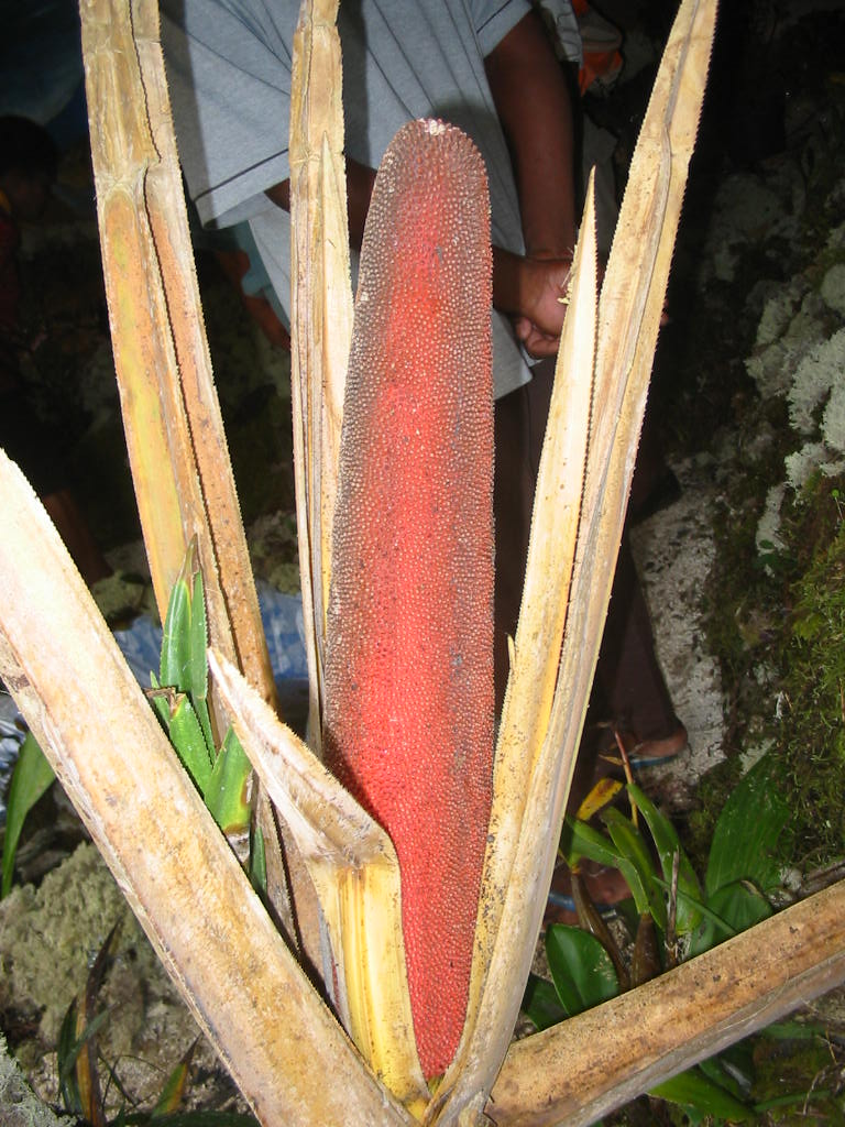 Red Fruit (Pandanus conoideus) is a traditional fruit from Papua, Indonesia. Papuans call them kuansu. Indonesians call them "buah merah" (red fruit). The fruit is typically prepared by splitting it, wrapping it in leaves, and cooking it in an earth oven.